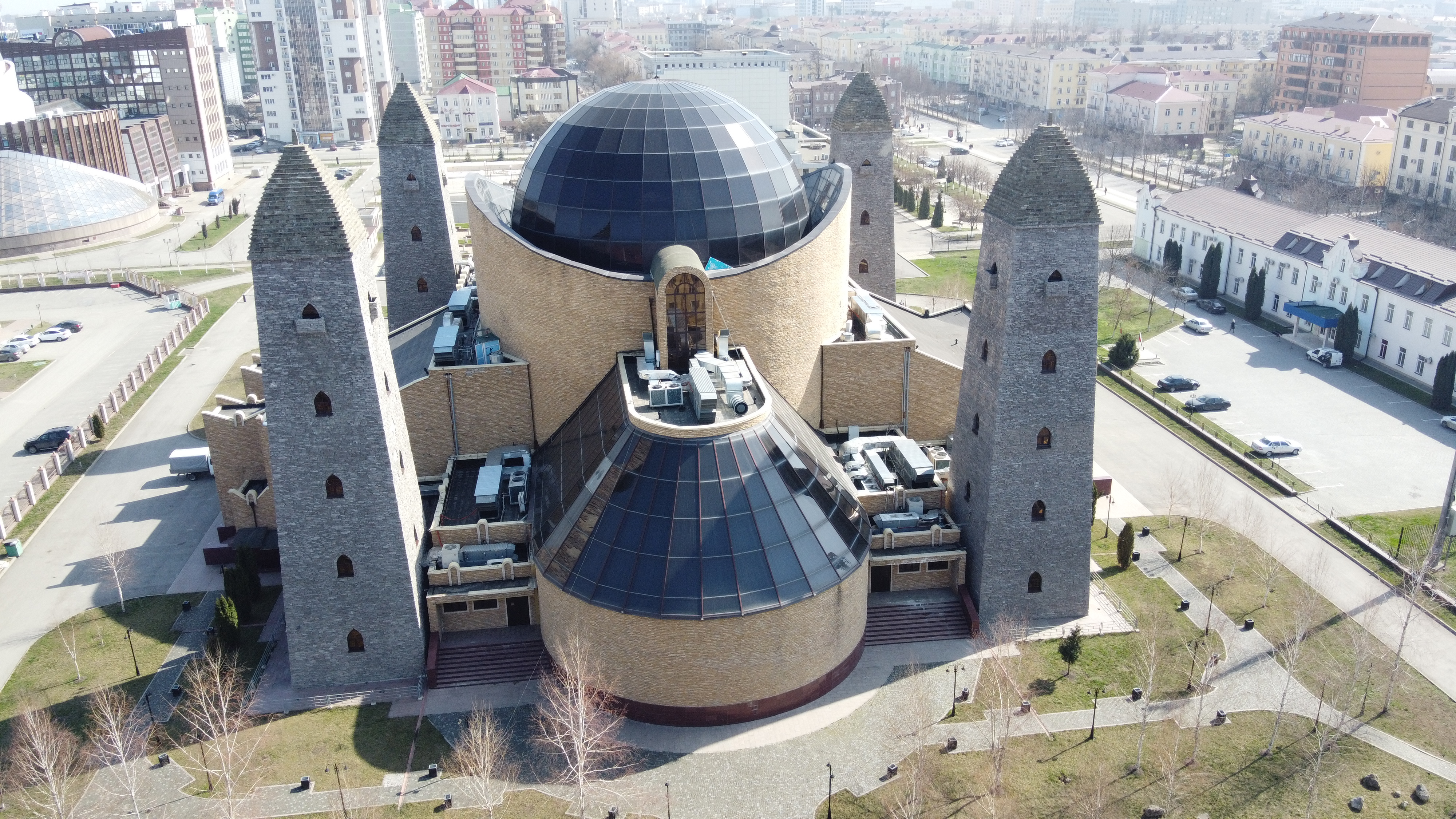 National Museum of Chechen Republic, aerial view